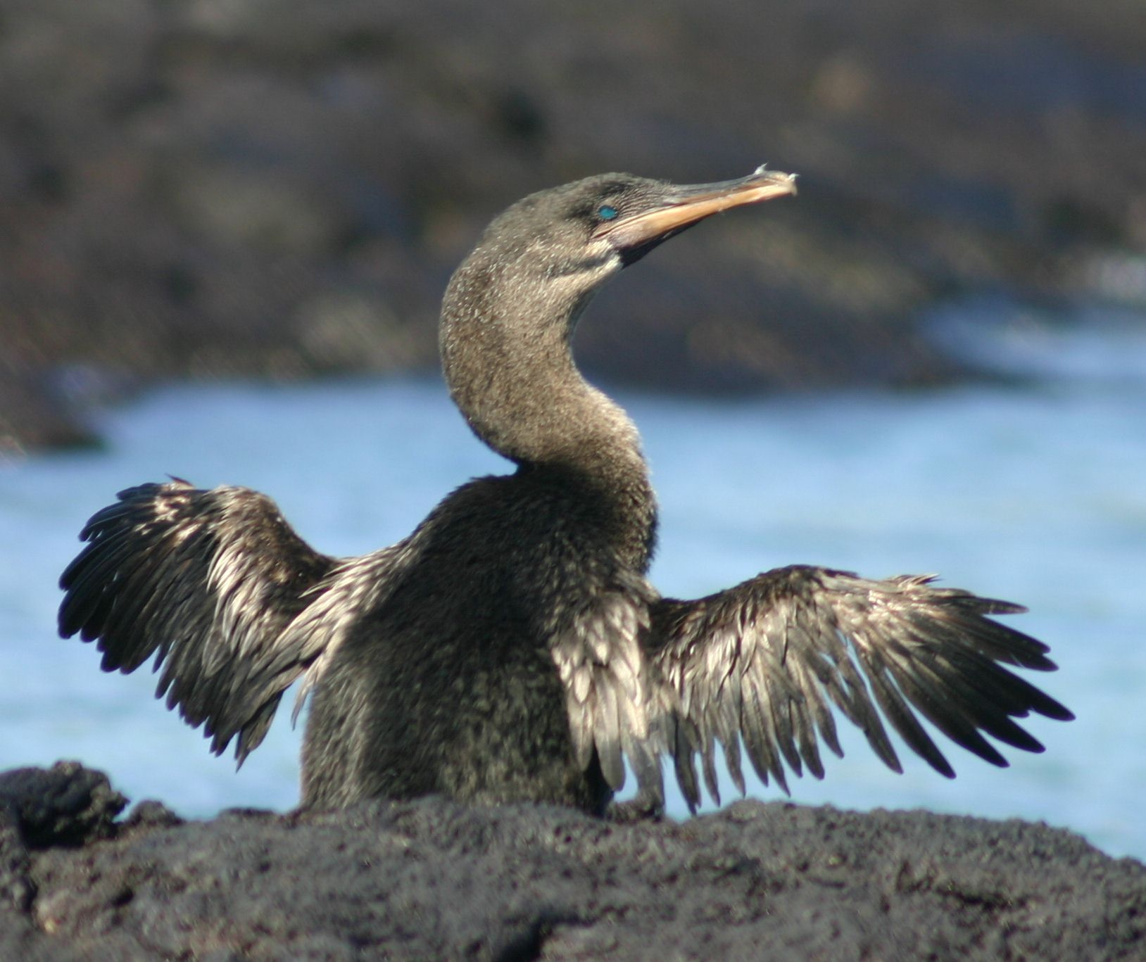 Flightless cormorant (Phalacrocorax harrisi) drying wings, Galapagos Islands